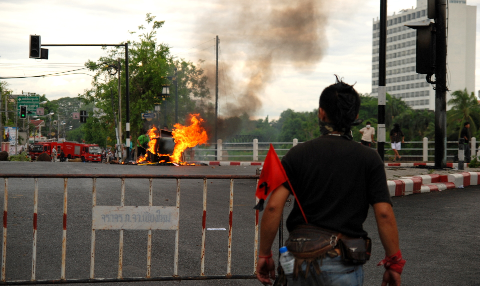 One of the Chiang Mai "red shirts" at the one remaining fire on Naowarat bridge. In the background are parked fire trucks which soon are damaged by "red shirts" with one set on fire (see File:2010 0519 Chiang Mai unrest 08.JPG).